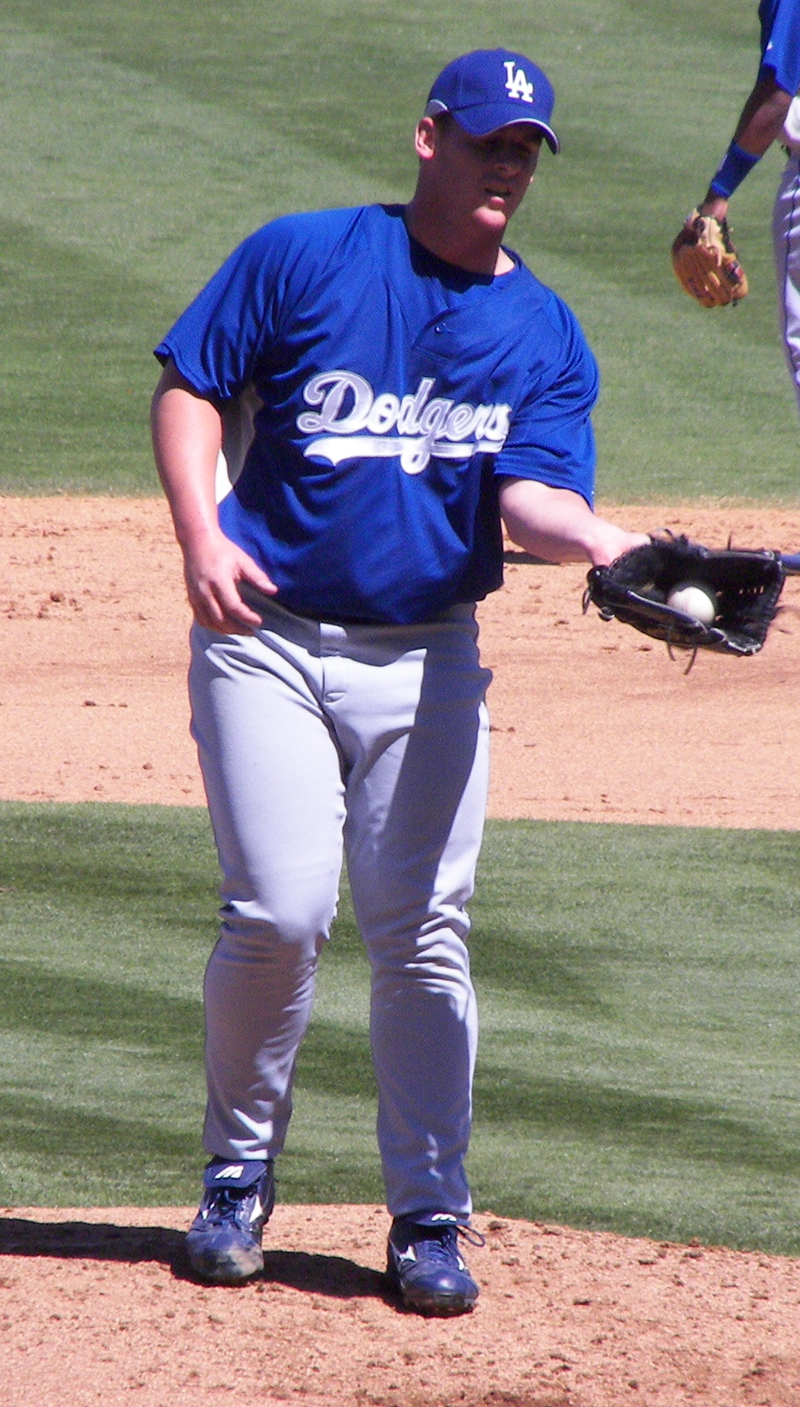 Los Angeles Dodgers pitcher Chad Billingsley pitching during a Dodgers/Boston Red Sox spring training game at City of Palms Park in Fort Myers, Florida.